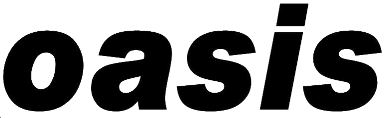 This is the logo of Oasis created by Photoshop and Microsoft Power Point (WordArt), this logo is not a derivative work due to the difference in the real logo ... Logo true